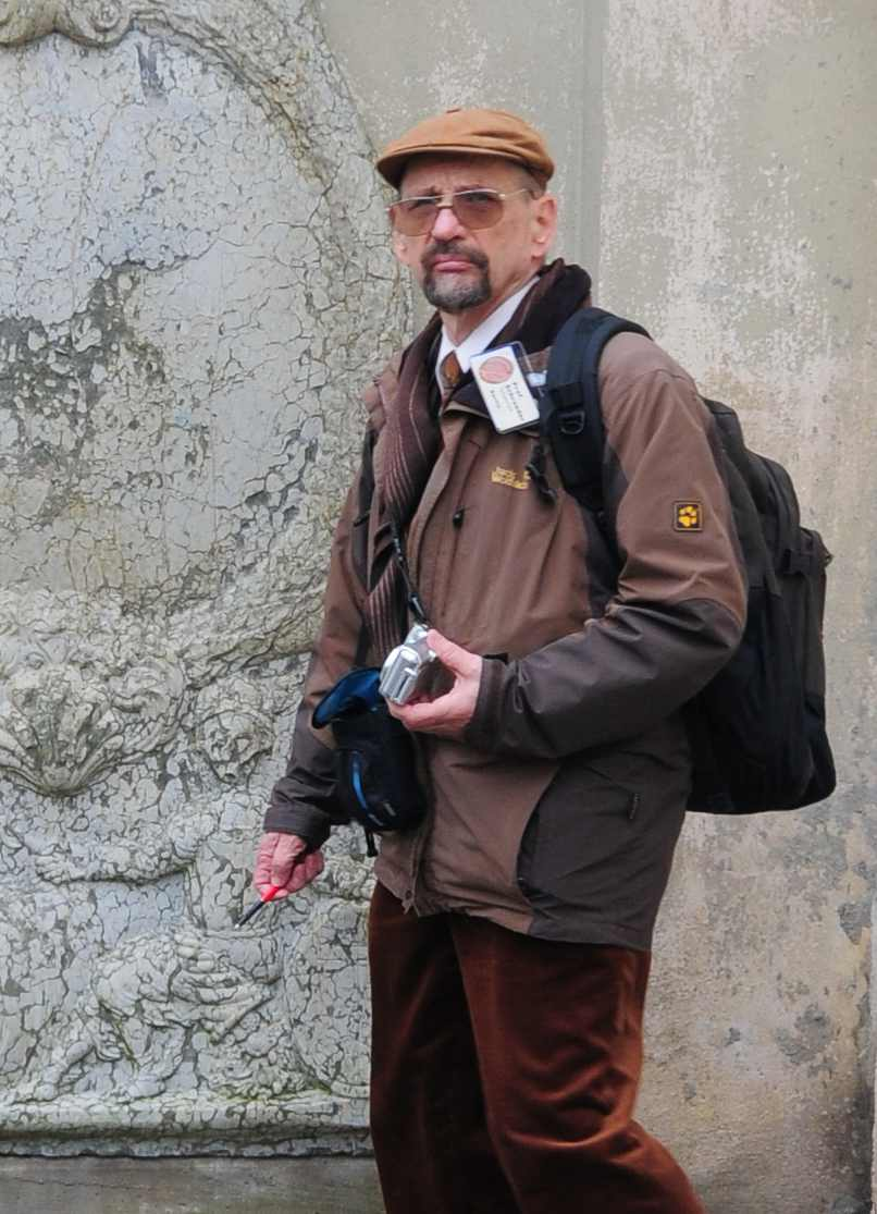 Prof. Johannes Herbert Schroeder (1939-2018), German geologist, Technical University of Berlin